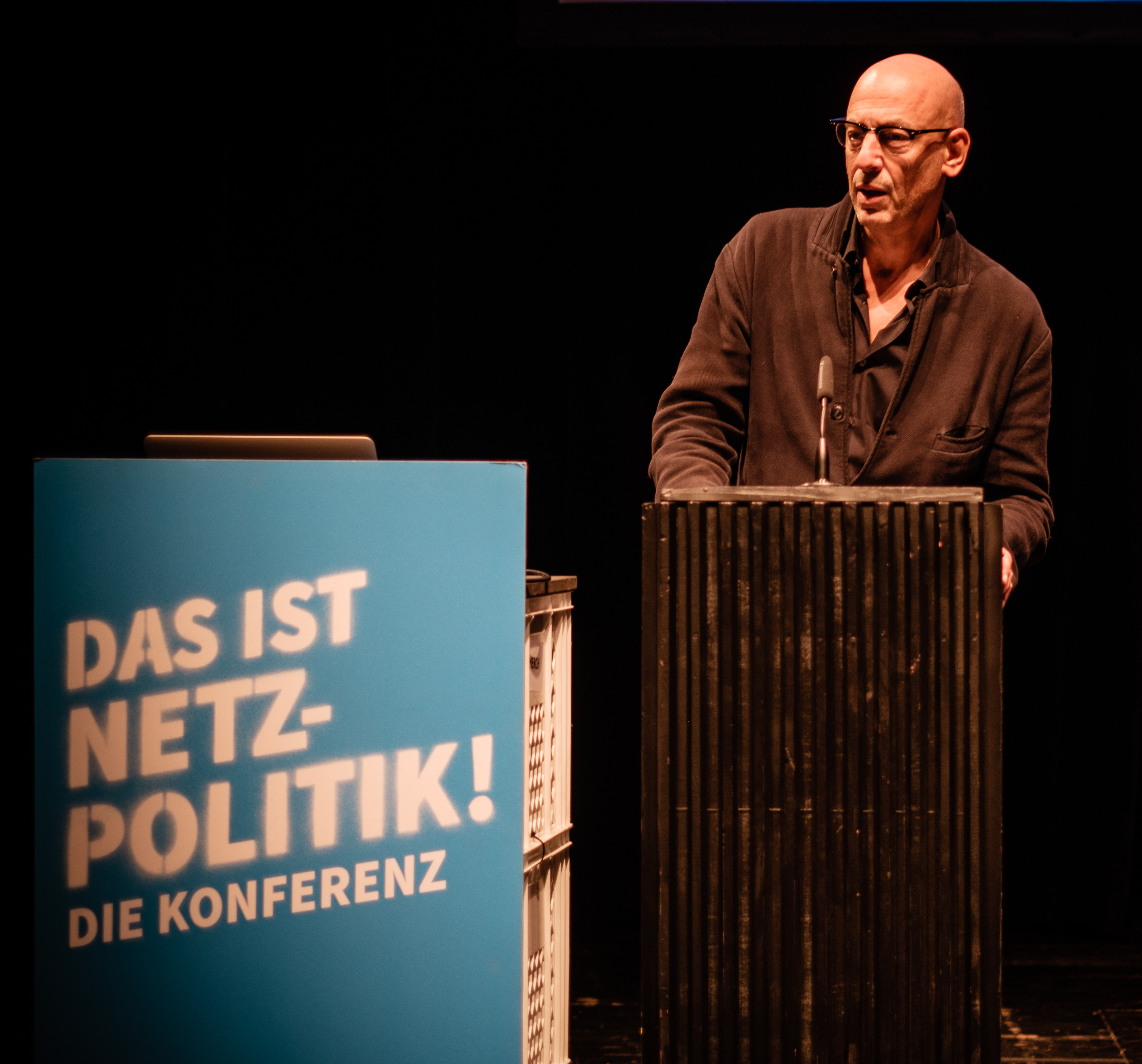 Klaus Dörr, Intendant Volksbühne Berlin, Konferenz "Das ist Netzpolitik!" 2019 1